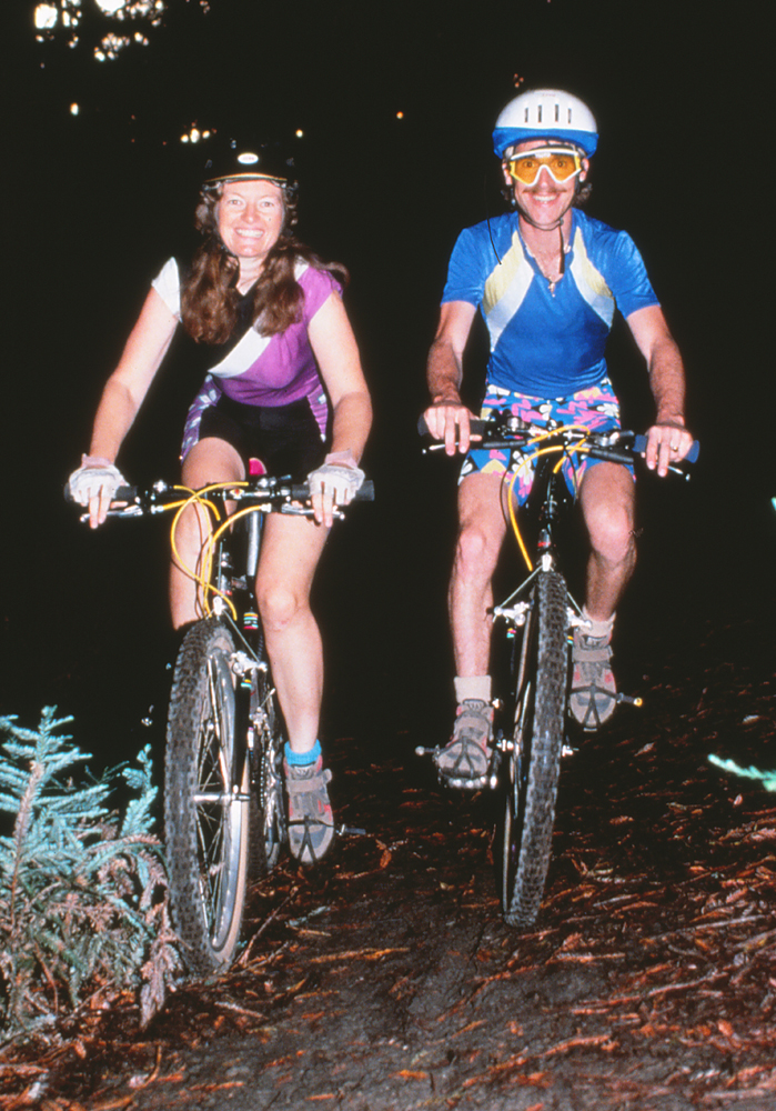 Patty Mooney and Mark Schulze married on their mountain bikes in the San Diego County Cleveland National Forest on July 23, 1987. Photo by Mark's father, Rolf Schulze